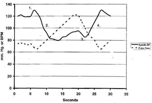 Effects of Valsalva manoever on systolic blood pressure and heart rate Created by T.torda